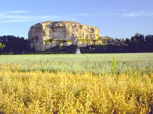 Pompeys Pillar National Monument, Montana